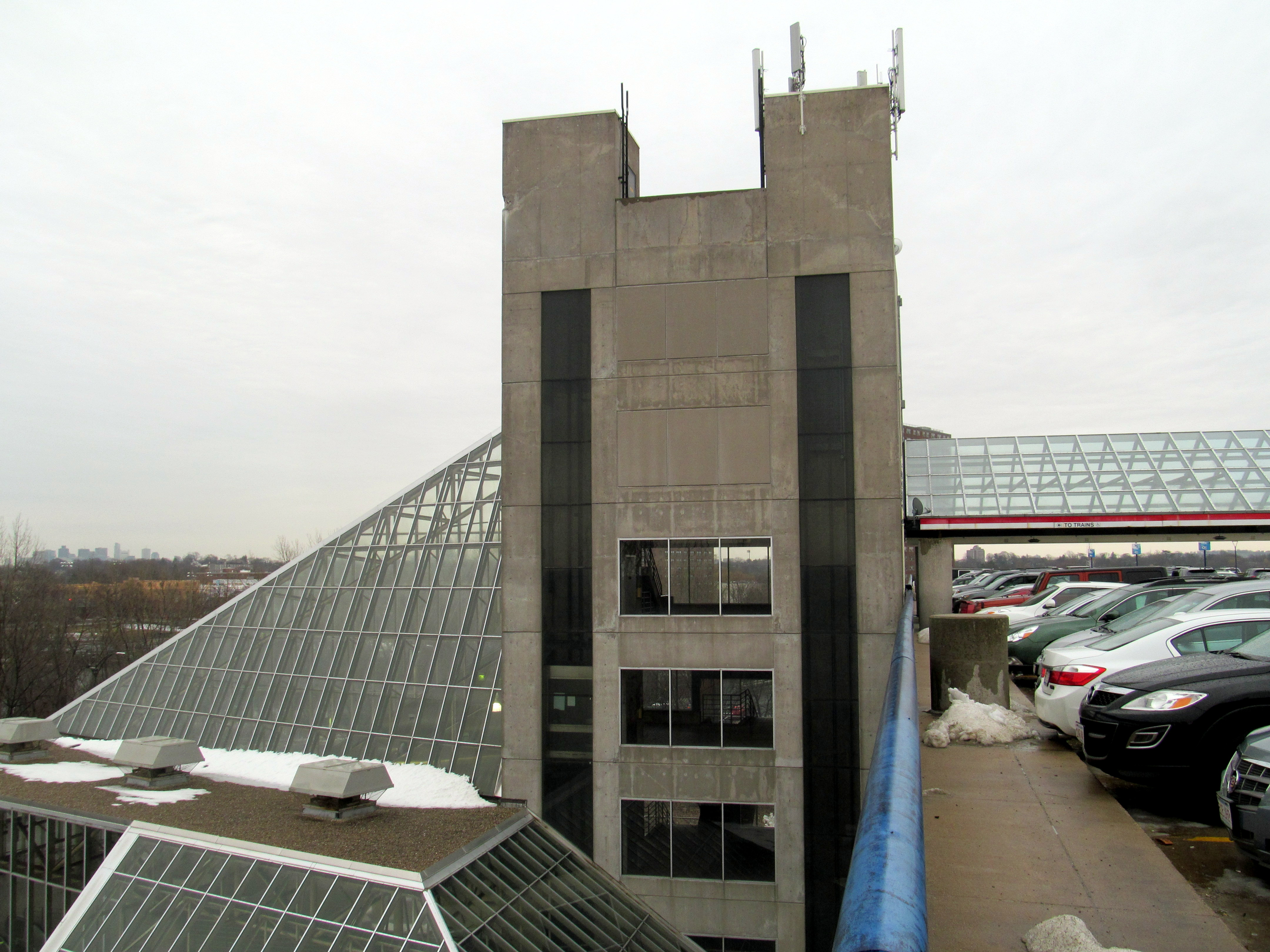 The Alewife station elevator tower in March 2017. The garage was designed for two additional levels which were never built; the elevator shafts were built to that height, with knockout panels for windows.